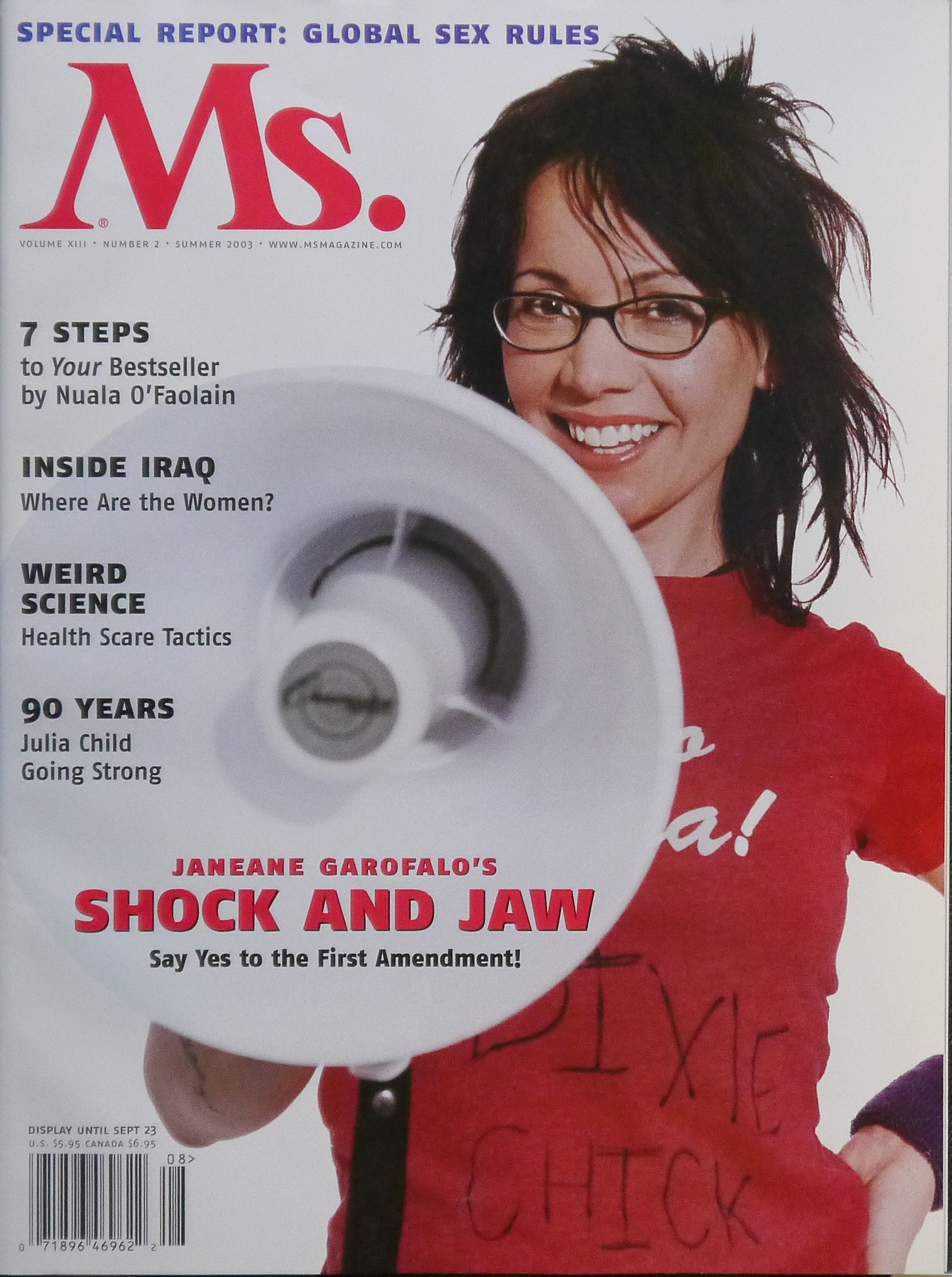 Ms. magazine, Summer 2003 with Janeane Garofolo